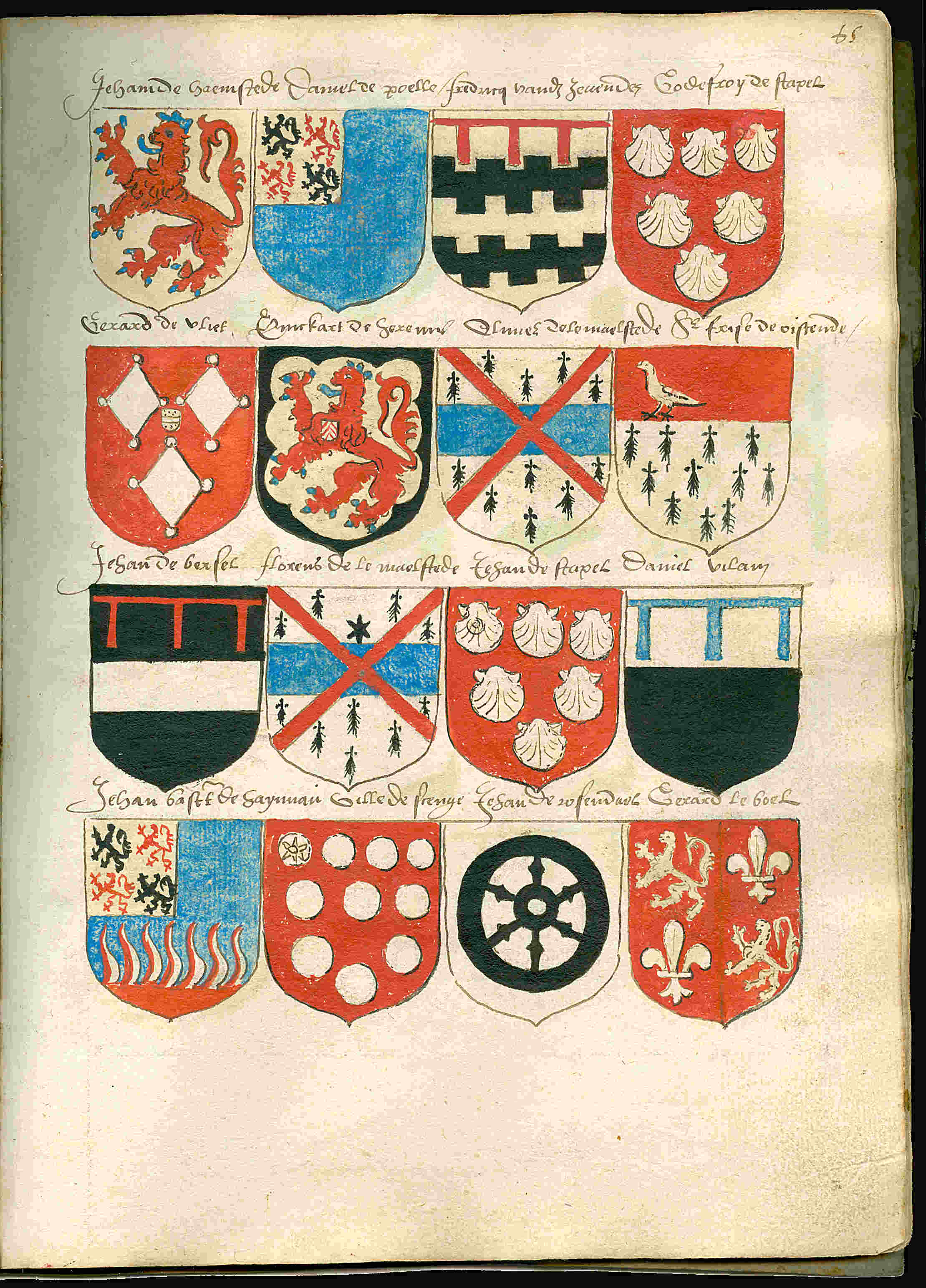 Page 65 from a copy of the Beyeren armorial / Wapenboek Beyeren from ca. 1600. The original Beyeren armorial from 1405 can be viewed at the website of the KB